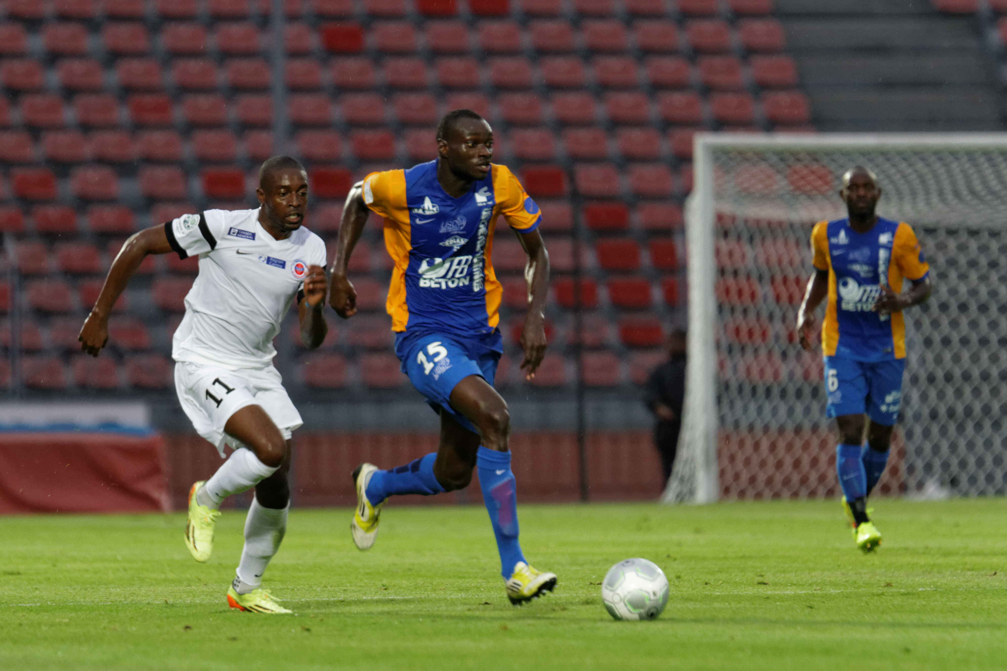 Créteil vs Châteauroux, 8th August 2014. Player : Ibrahima Seck (n°15)